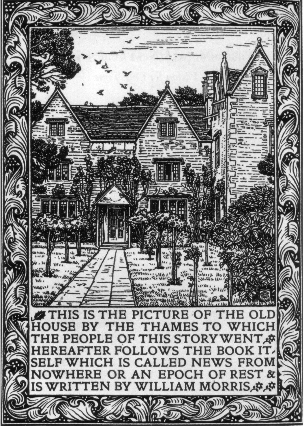 Kelmscott Manor depicted in the frontispiece to the 1893 Kelmscott Press edition of William Morris's News from Nowhere